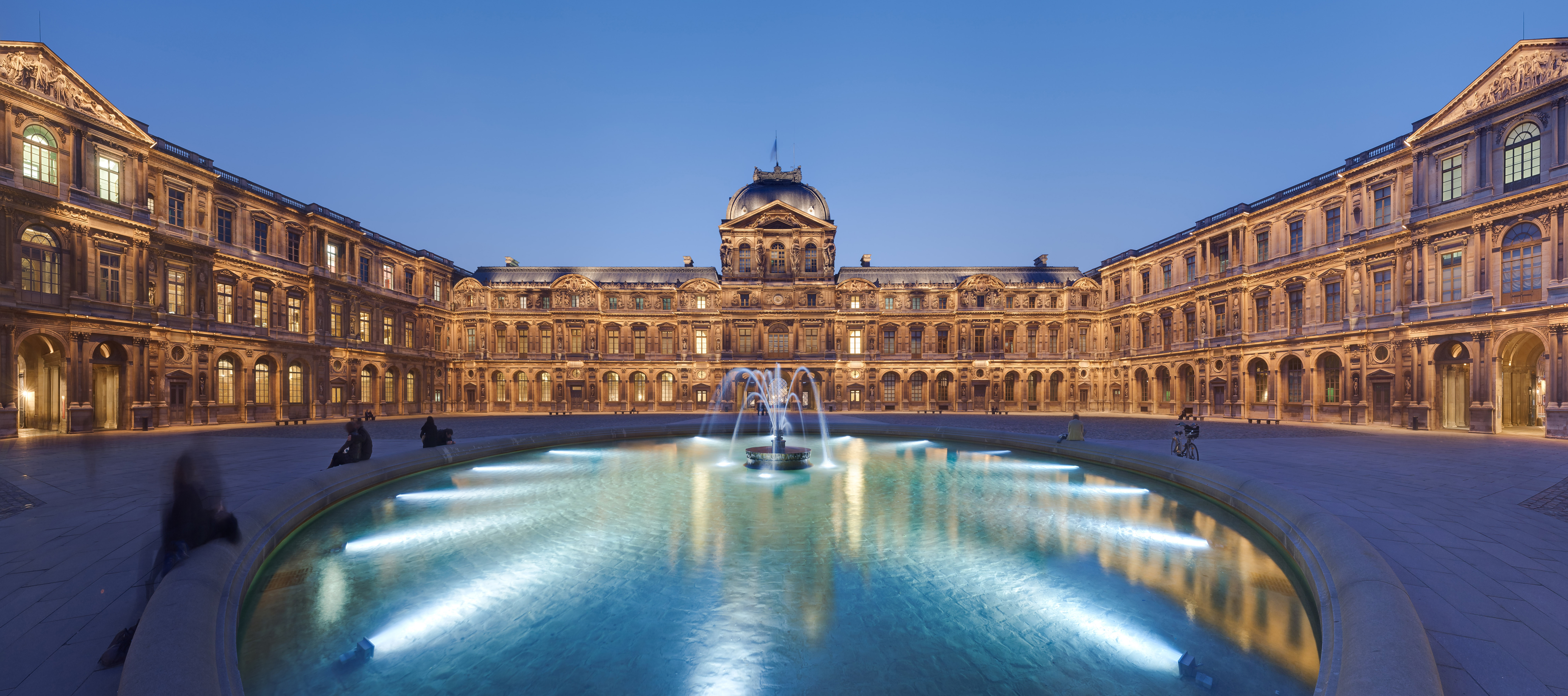 Cour Carrée (Square courtyard) and Pavillon de l’Horloge (Clock Pavilion) of the Louvre Museum, at dusk.